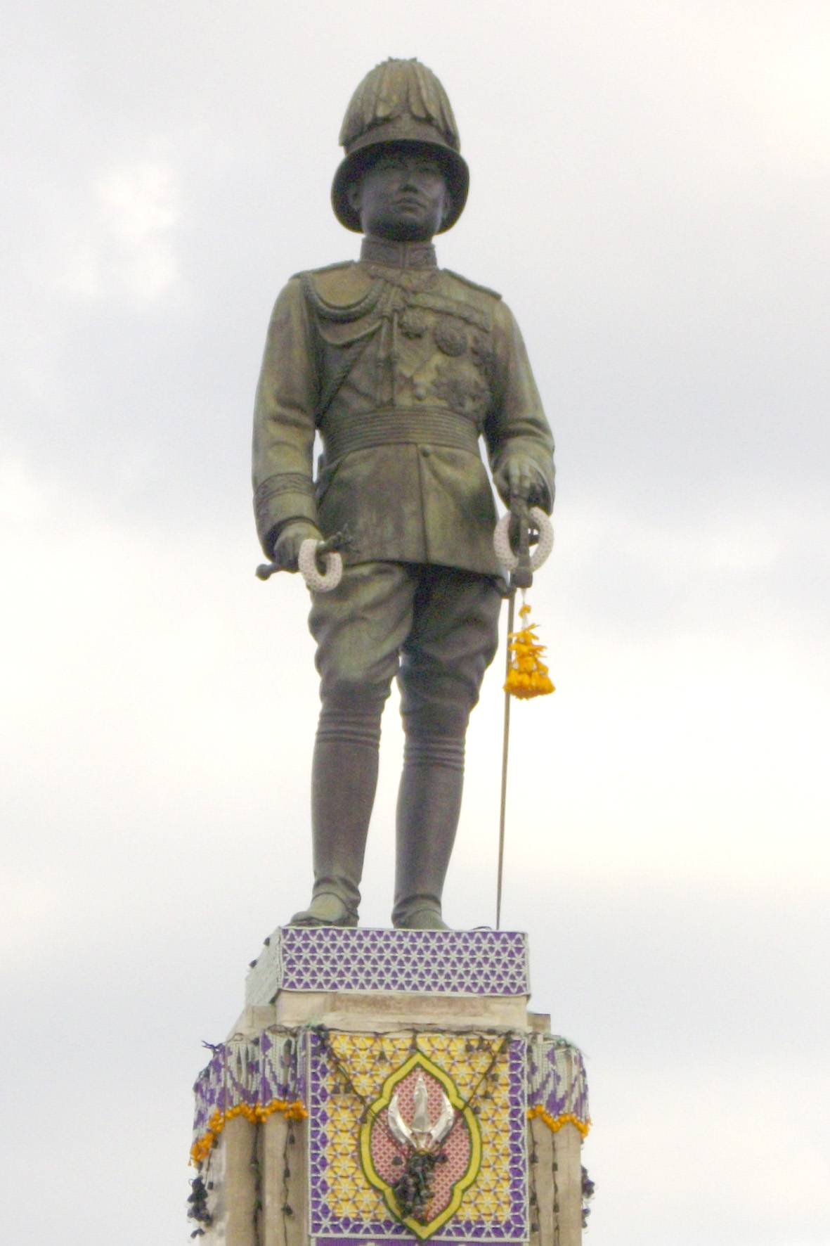 Monument of HM King Vajiravudh (Rama VI) of Siam at Lumphini Park, Bangkok.